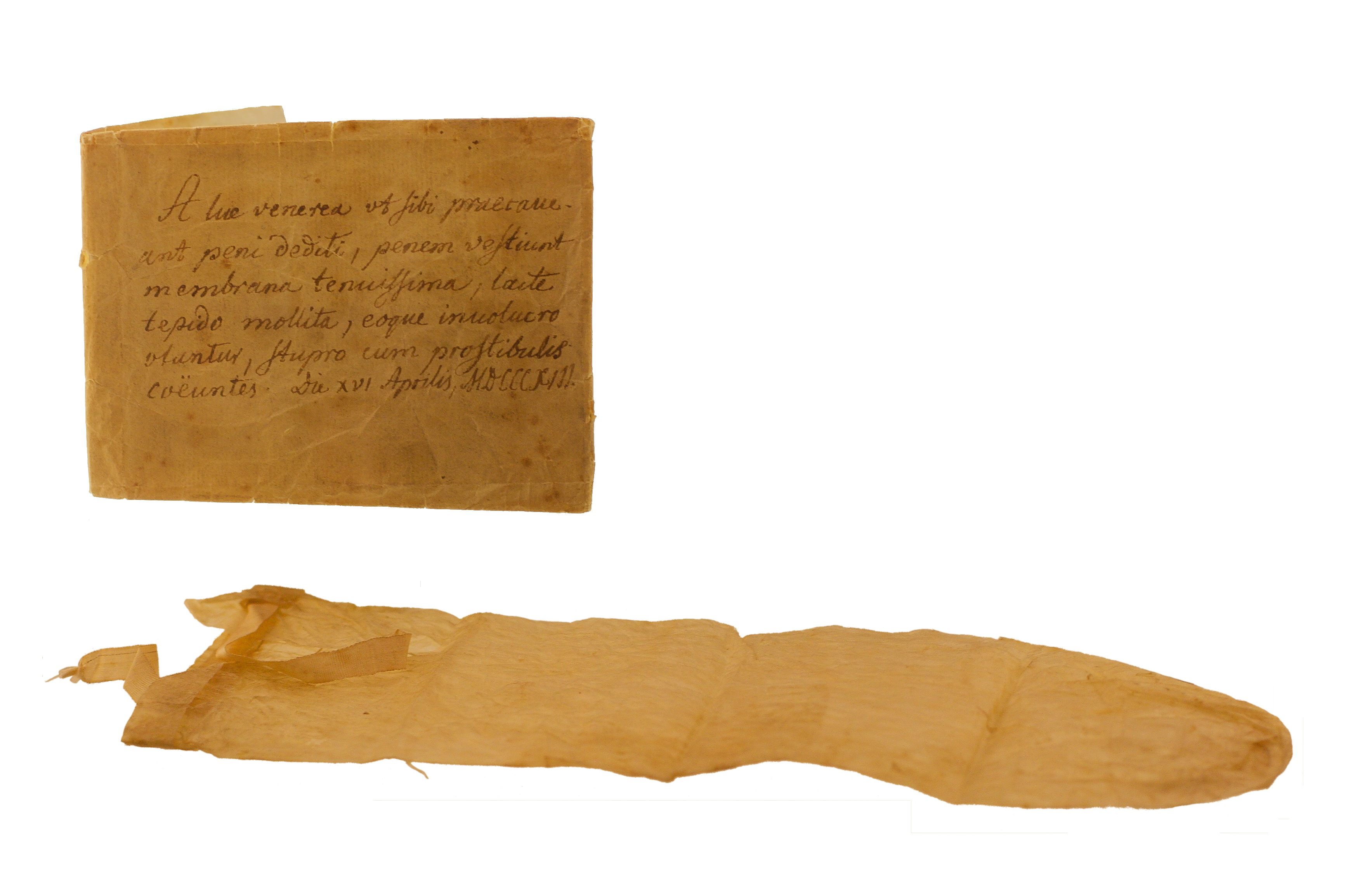 Condom with latin manual from 1813 Lund University Historical Museum